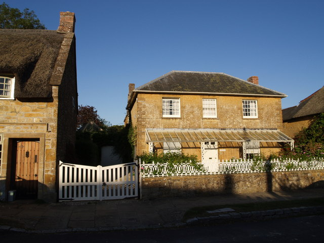 Fowler's house, Hinton St George The house is called Gainsfords, and bears a blue plaque recording that it was the home of "H W Fowler lexicographer 1925-1933", best known for "A Dictionary of Modern English Usage". . The early C19 house is in villa style - . To the left is the earlier, thatched, End Cottage